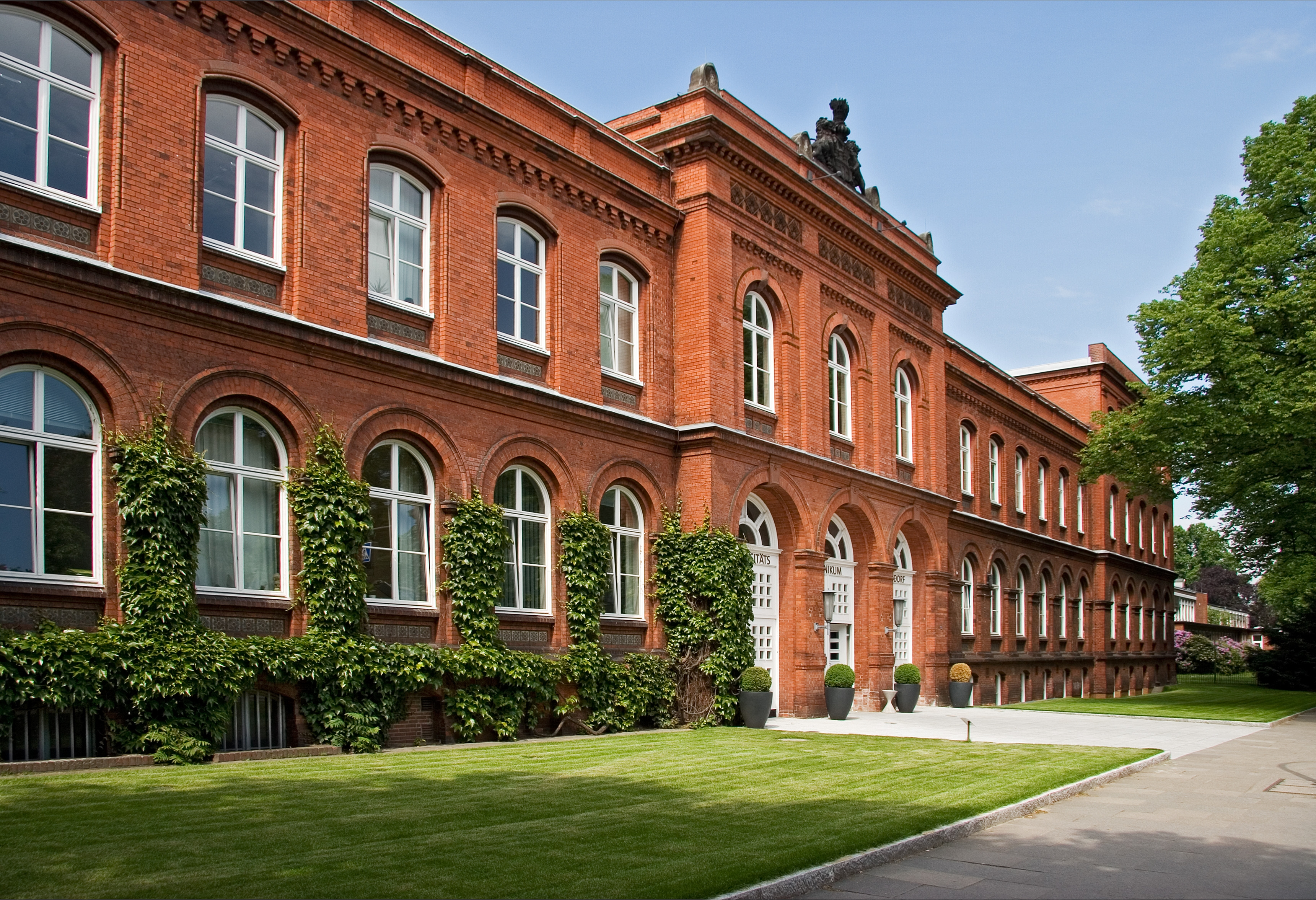 Administration Building, University Medical Clinic Hamburg Eppendorf